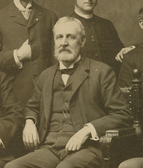 "Members of the Acanthus Club posed in photographer's studio. Handwritten on photograph front: "Herbert Bowen" and "Levi Barbour," written below each individual. Very faint writing on mat front. Handwritten on label on mat back: "Acanthus Club, 1898. Standing, left to right - Warren S. Blauvelt, engineer; Bernard D. York, lawyer; Dr. Willard Chaney; Oscar E. Angstman, lawyer; Rev. Paul Ziegler; David E. Heineman, lawyer; Dr. Hal C. Wyman; Frank L. York, music teacher. Seated - Rev. Stephen W. Frisbie; Dr. Frank V. Horn; Hoyt Post, lawyer; Henry M. Utley, librarian; Rev. Walter Hughson; Herbert Bowen, lawyer; Levi L. Barbour, lawyer; George King, bookkeeper. C.M. Hayes, photographer. Judge Mandel, 4th from right, back row. David E. Heineman, 3rd [ditto]." Typed on label on duplicate mat back: same list of names and occupations as on original. Handwritten on duplicate mat back: "About 1901." Handwritten on duplicate mat back: "Acanthus Club, date unknown. Back row, left to right - ---; Bertrand D. York; Geo Ducharme?; Oscar Angstrom; Rev. Mr. Ziegler; ---; David Heineman?; ---; Francis L. York." Mat worn at edges, corner broken off. Photograph slightly spotted and flaking."